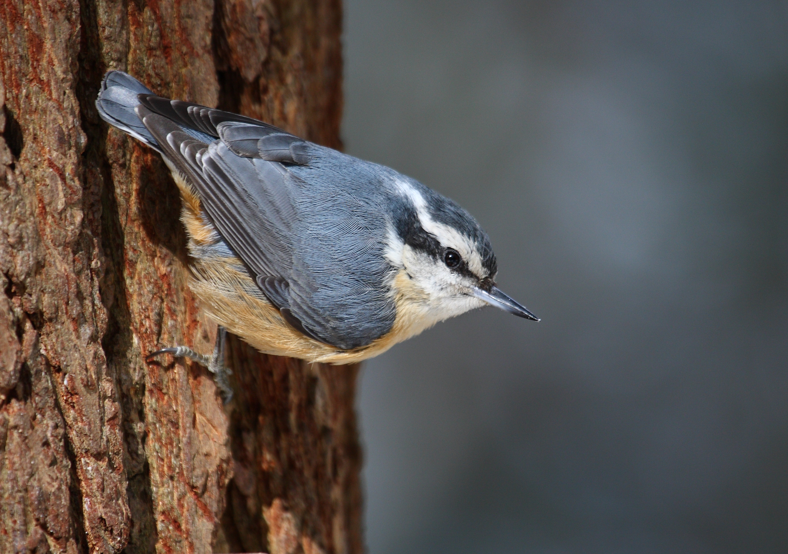 Red-breasted Nuthatch (Sitta canadensis), female, Cap Tourmente National Wildlife Area, Quebec, Canada